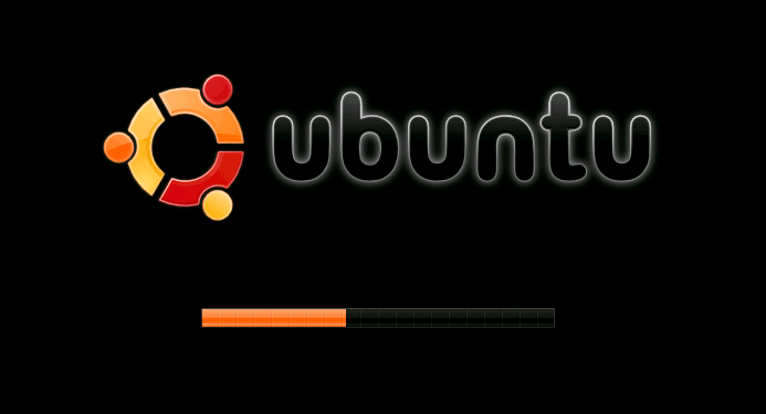 Loading screen from Ubuntu 8.04 and 8.10.